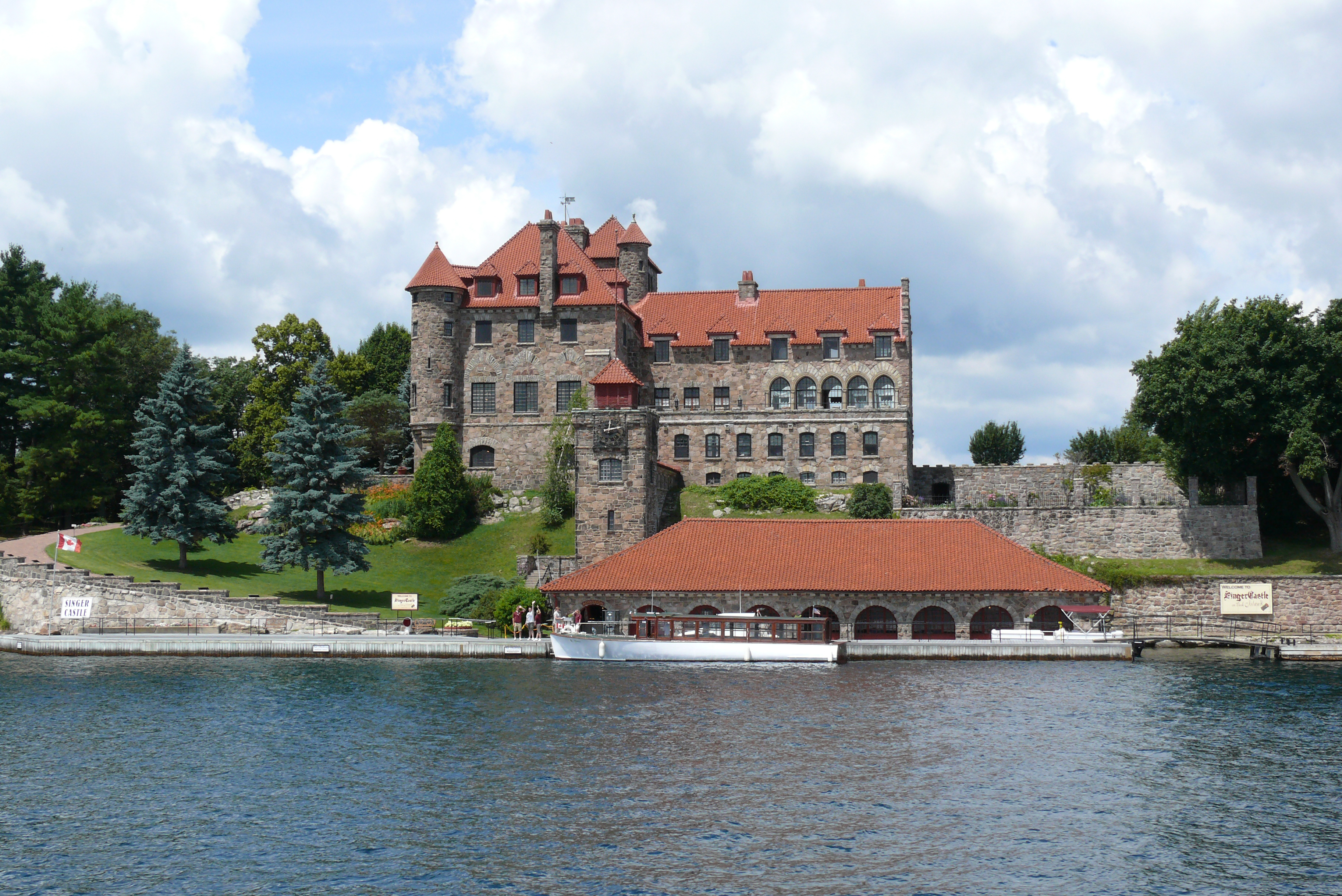 Dark Island, a prominent feature of the St. Lawrence Seaway, is located in the lower (eastern) Thousand Islands region, near Chippewa Bay. Dark Island Castle was recently renamed "Singer Castle", because it was built for Frederick Gilbert Bourne, president of the Singer Manufacturing Company , producer of the Singer Sewing Machine.